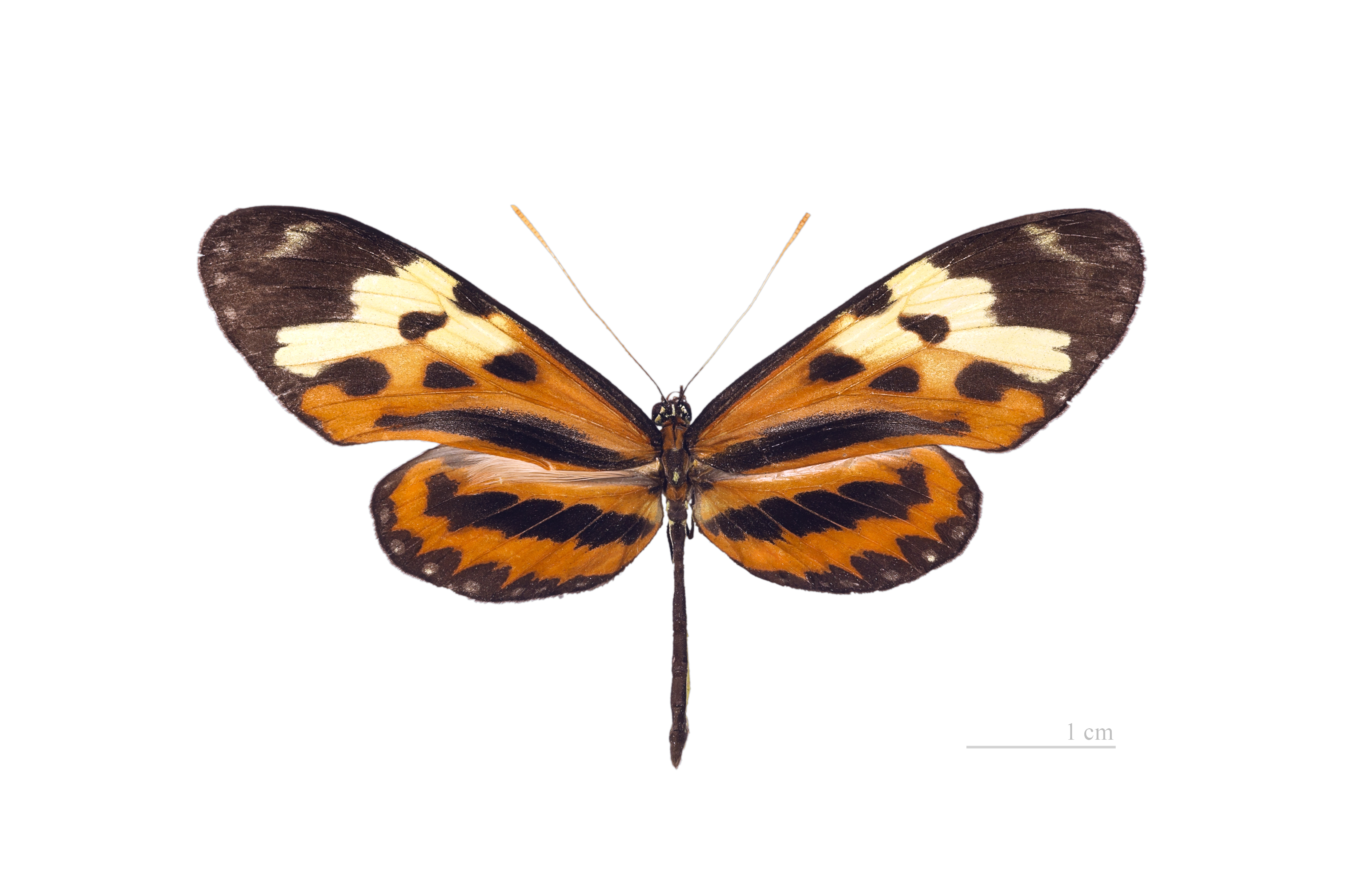 Orange-spotted Tiger Clearwing ♂ - Dorsal side Locality: Santarém Pará, Brazil.